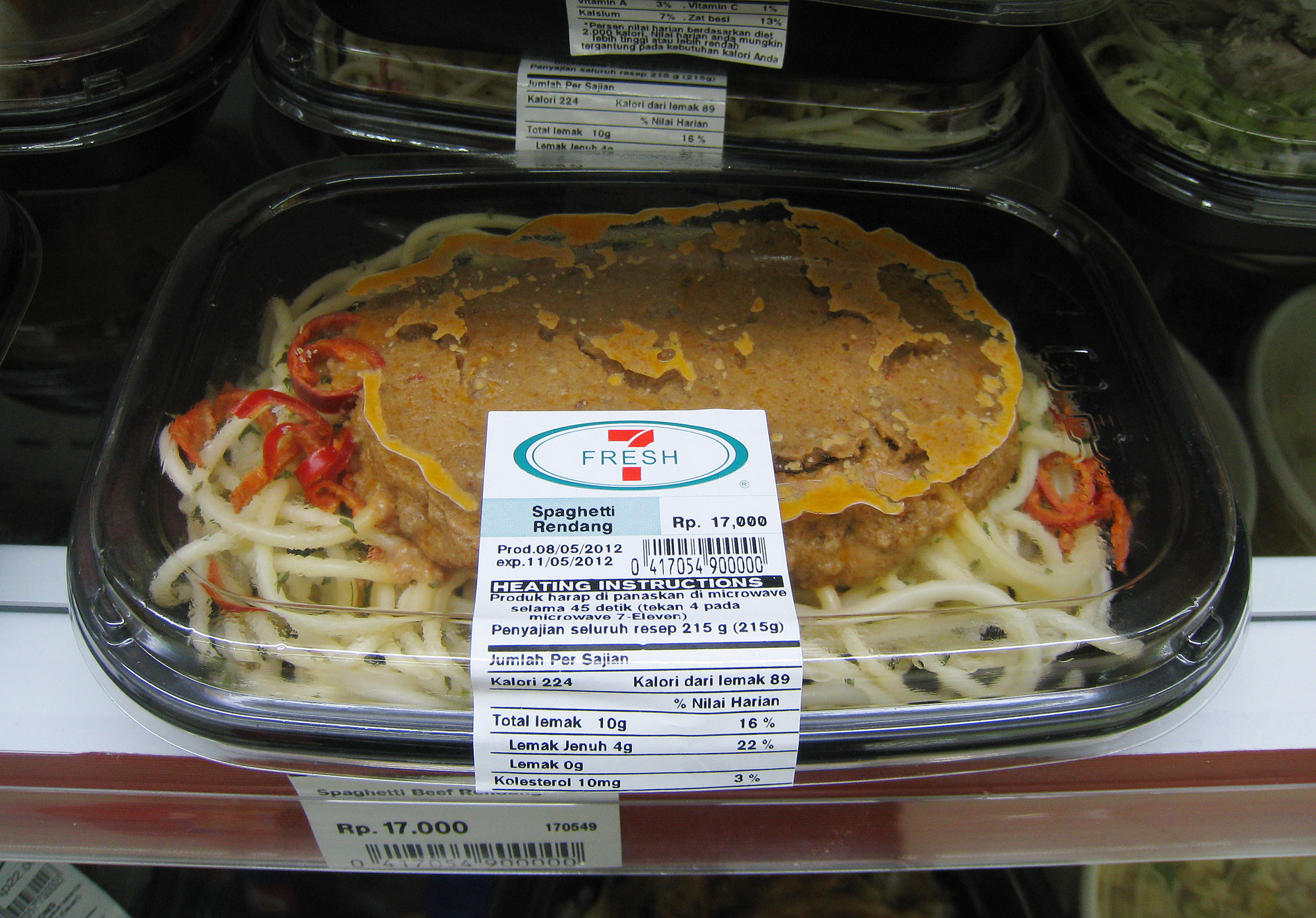 7-Eleven chilled Spaghetti Rendang on display in the chiller of 7-Eleven convenience store in Jakarta, Indonesia.